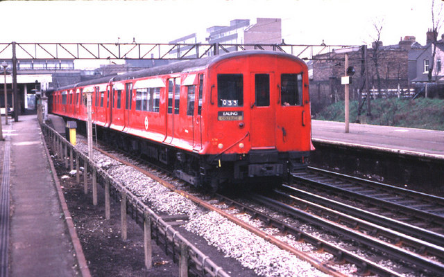 CO Stock at Barking A District Line train made up of CO stock departs Barking for Ealing. The design is 1935 vintage. All were withdrawn in the early 1980's as new trains were delivered for the District Line.